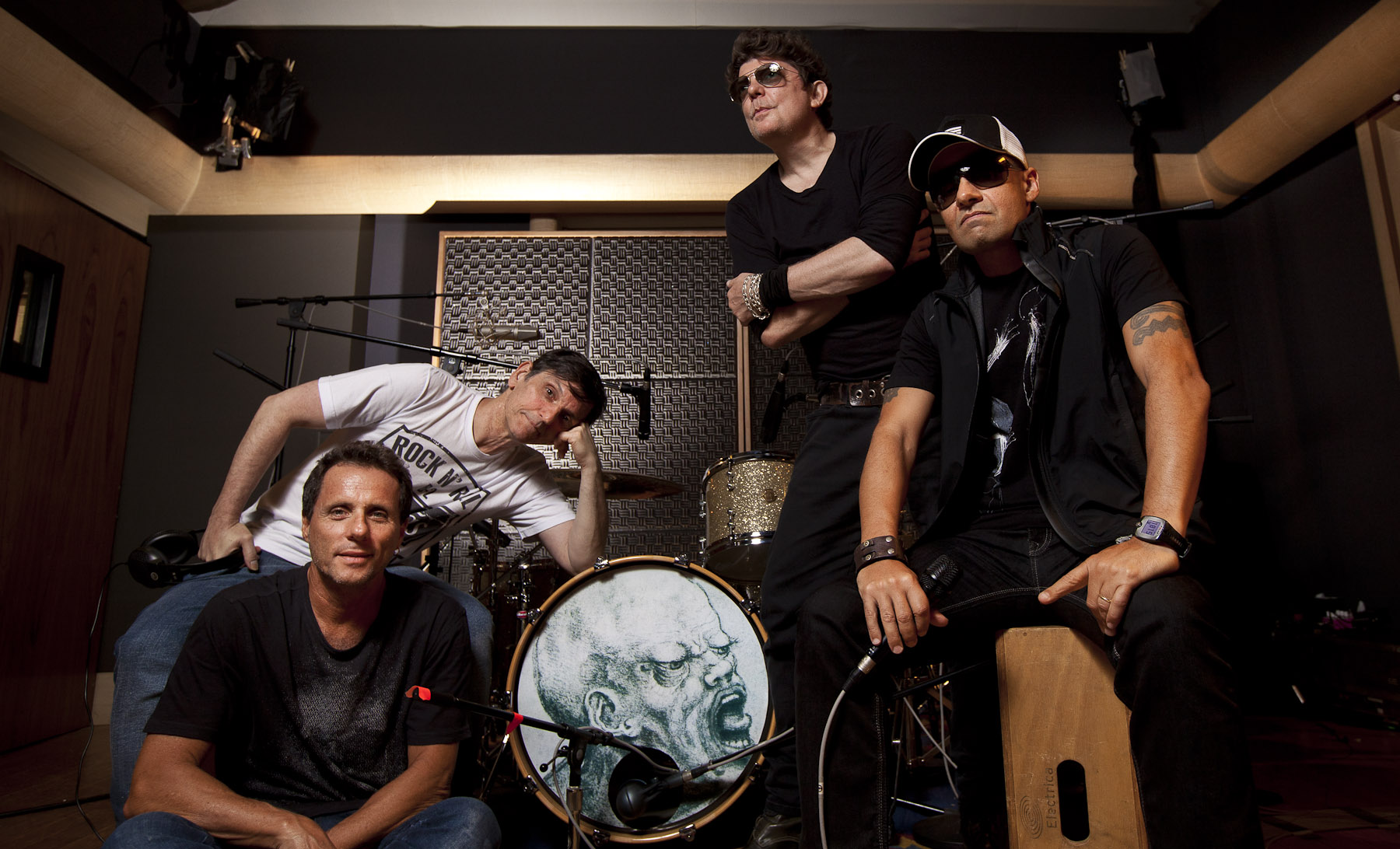 Titãs are a rock band from São Paulo, Brazil. Their best-known line up is the one in the album Cabeça Dinossauro (1986): Nando Reis (bass guitar, vocals), Branco Mello (vocals), Marcelo Fromer (guitar), Arnaldo Antunes (vocals), Tony Bellotto (guitar), Paulo Miklos (sax, mandolin, harmonica, vocals), Charles Gavin (drums) and Sérgio Britto (keyboards, vocals). Out of these, only Mello, Bellotto, Miklos, and Britto remain in the band as of today.